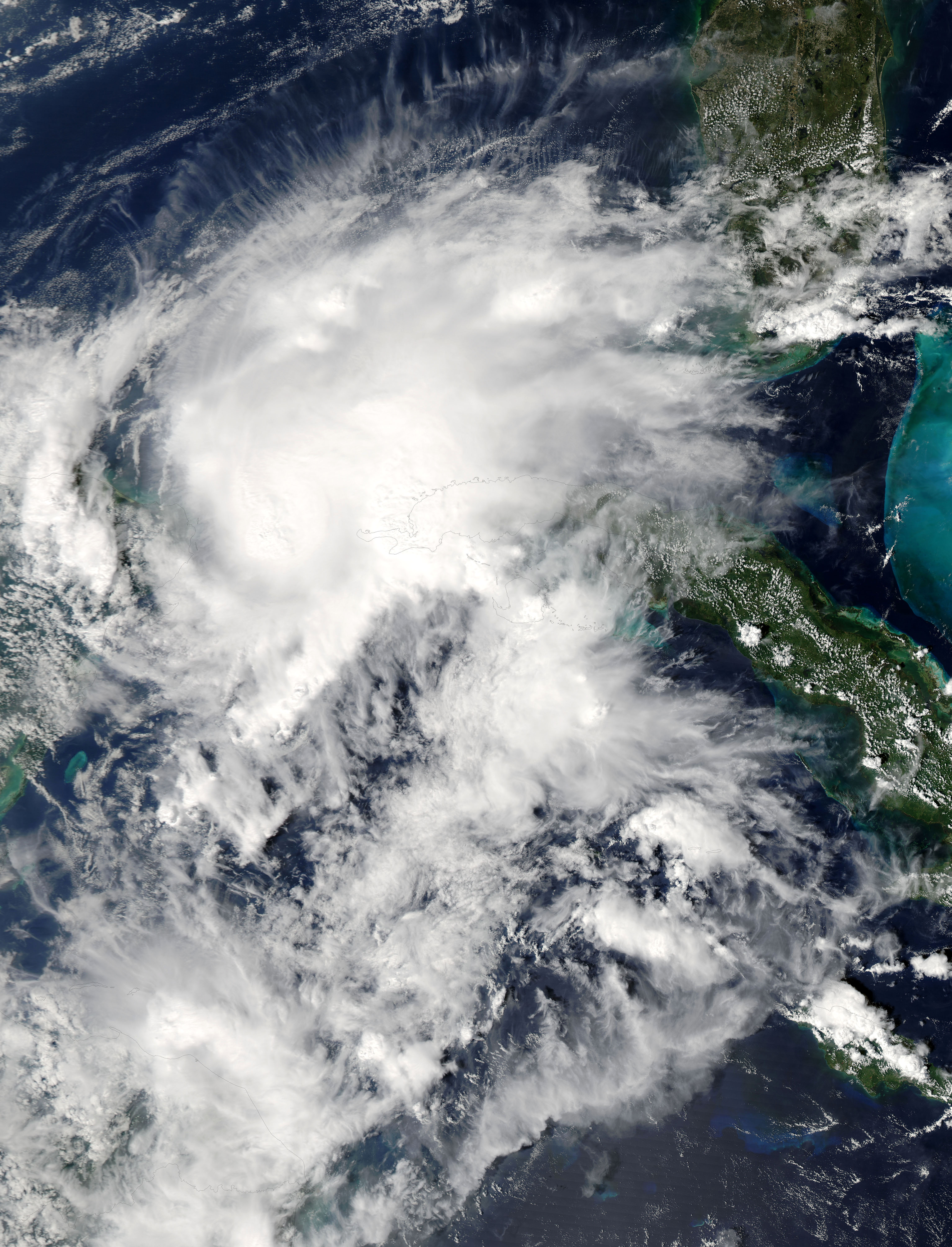 Hurricane Paula had been traveling in a northwesterly direction on October 13, 2010, when the storm briefly ground to a halt between Mexico and Cuba. At 1:00 p.m. Central Daylight Time (CDT), the U.S. National Hurricane Center (NHC) reported that Paula was stationary some 55 miles (90 kilometers) west-southwest of the western tip of Cuba. Still a Category 2 hurricane with winds of 100 miles (160 kilometers) per hour, Paula was expected to begin traveling toward the north-northeast. The Moderate Resolution Imaging Spectroradiometer (MODIS) on NASA’s Aqua satellite captured this natural-color image of Hurricane Paula at 1:35 p.m. CDT (18:35 UTC) on October 13, 2010. Lacking the discernible eye it sported the day before, the storm nevertheless remains a solid cloud mass with the comma shape typical of cyclones. In the northeast, storm clouds reach southern Florida.